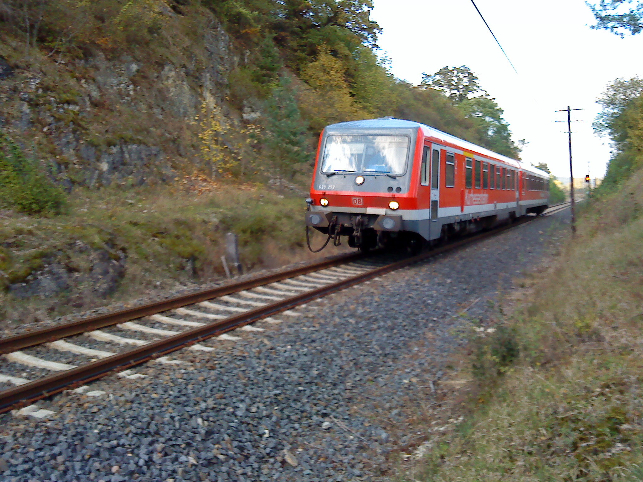 628 252 on the way to Wolfhagen